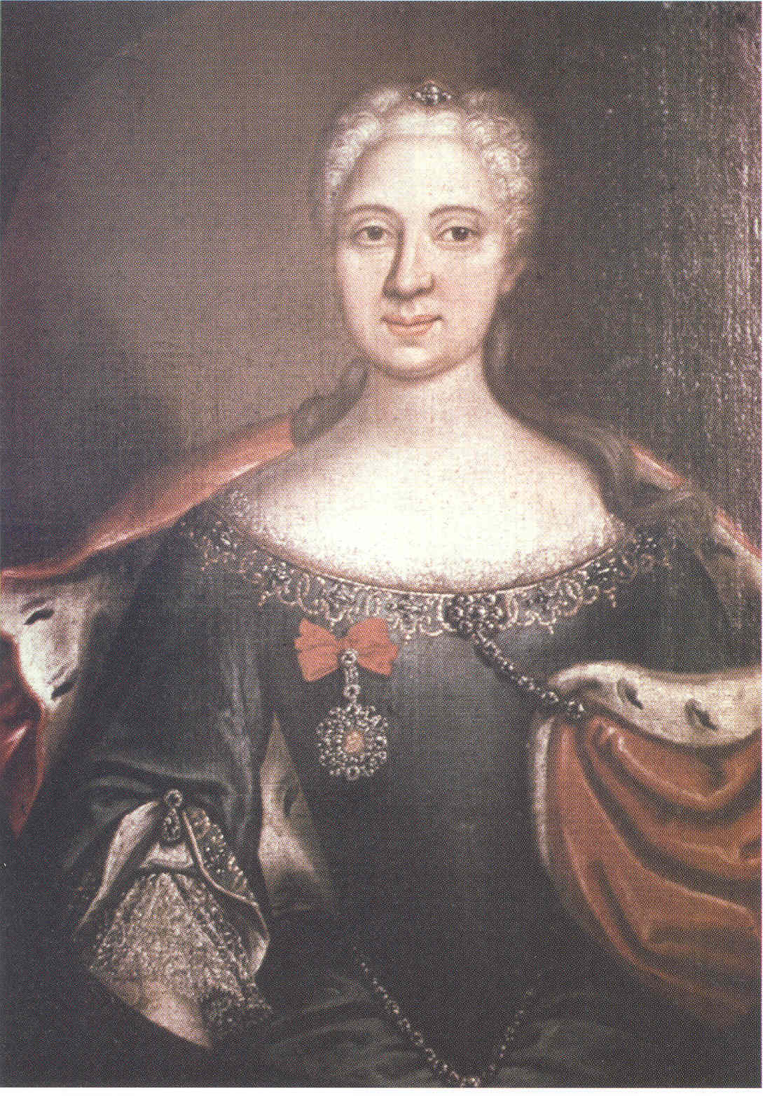 Portrait of the Countess Palatine Francisca Christina of Sulzbach (1696-1776)